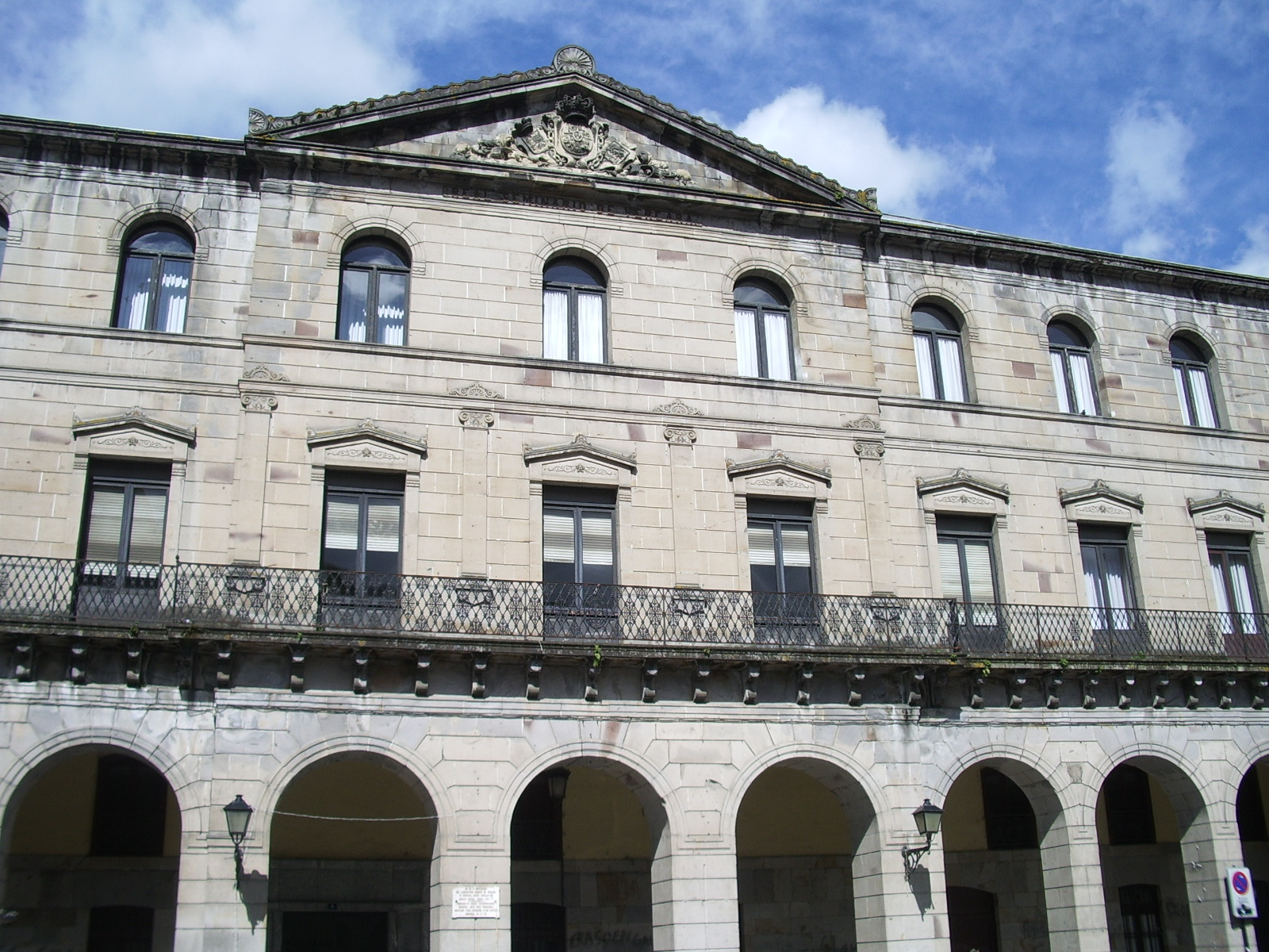 Seminary of Bergara, Guipuscoa, Basque Country